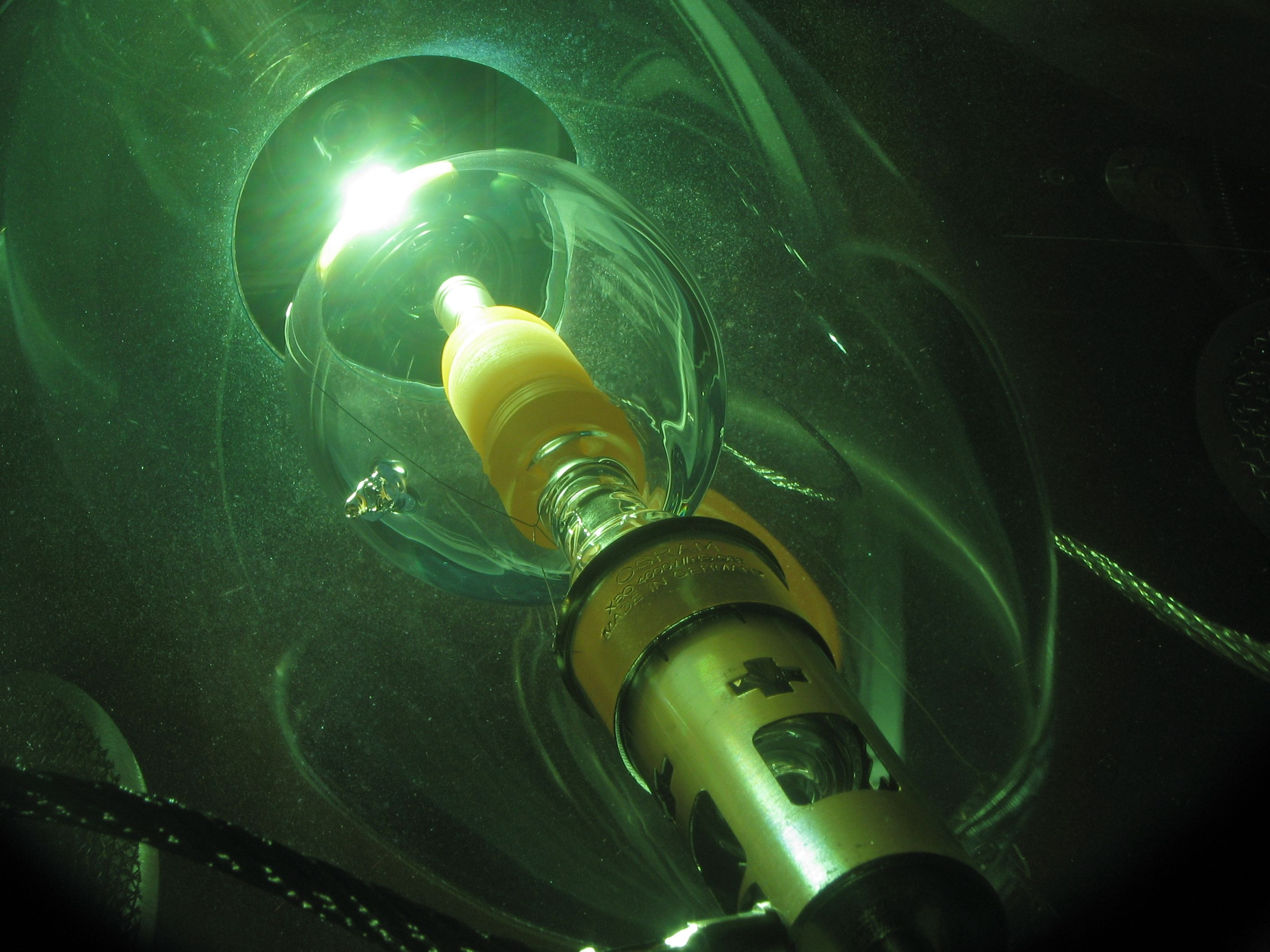 A xenon arc lamp (Osram XBO 4000W/HS OFR) viewed through filtered viewport in a BIG SKY Industries console.